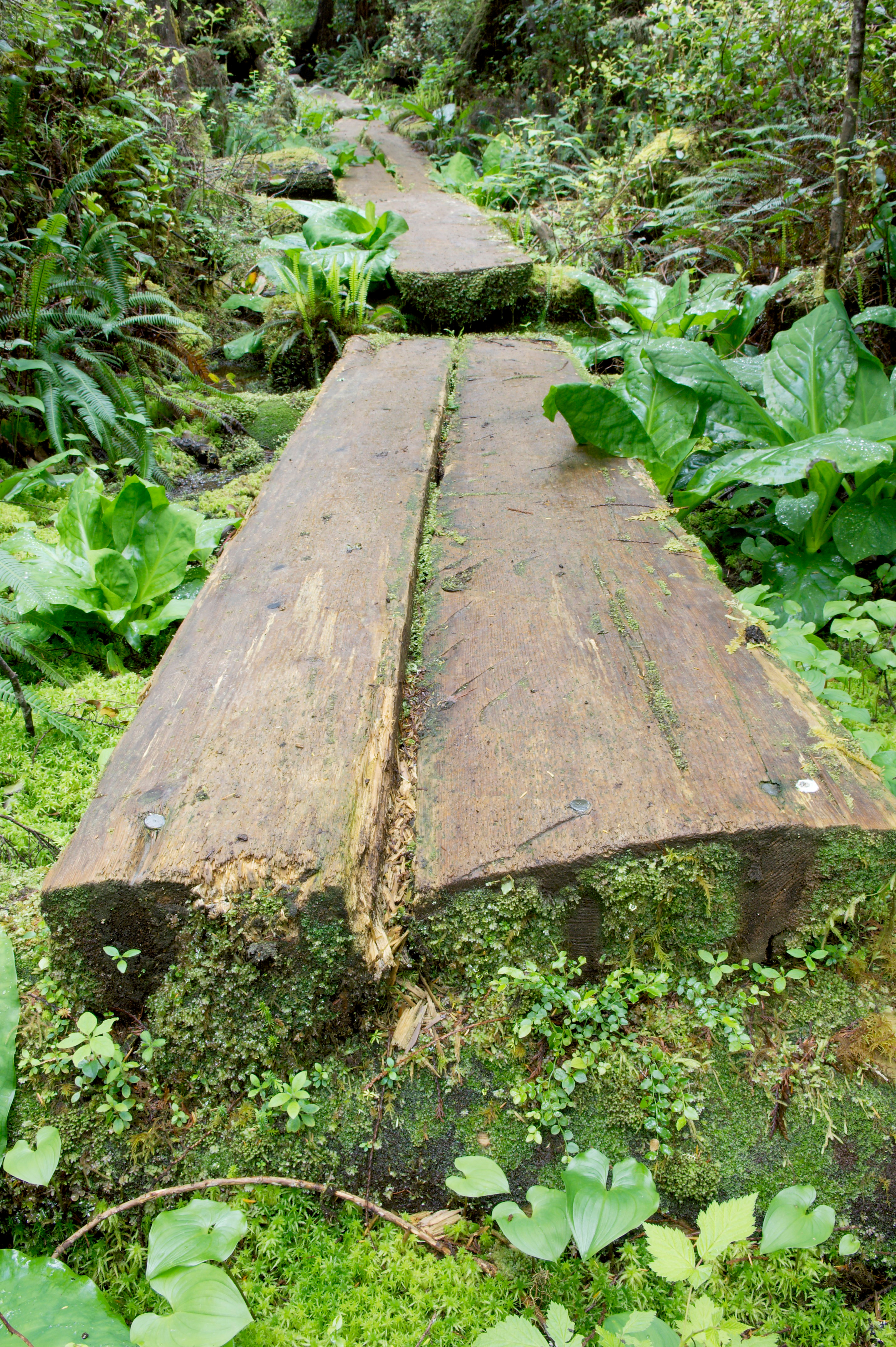 I took this photo. See it online Overgrown path.